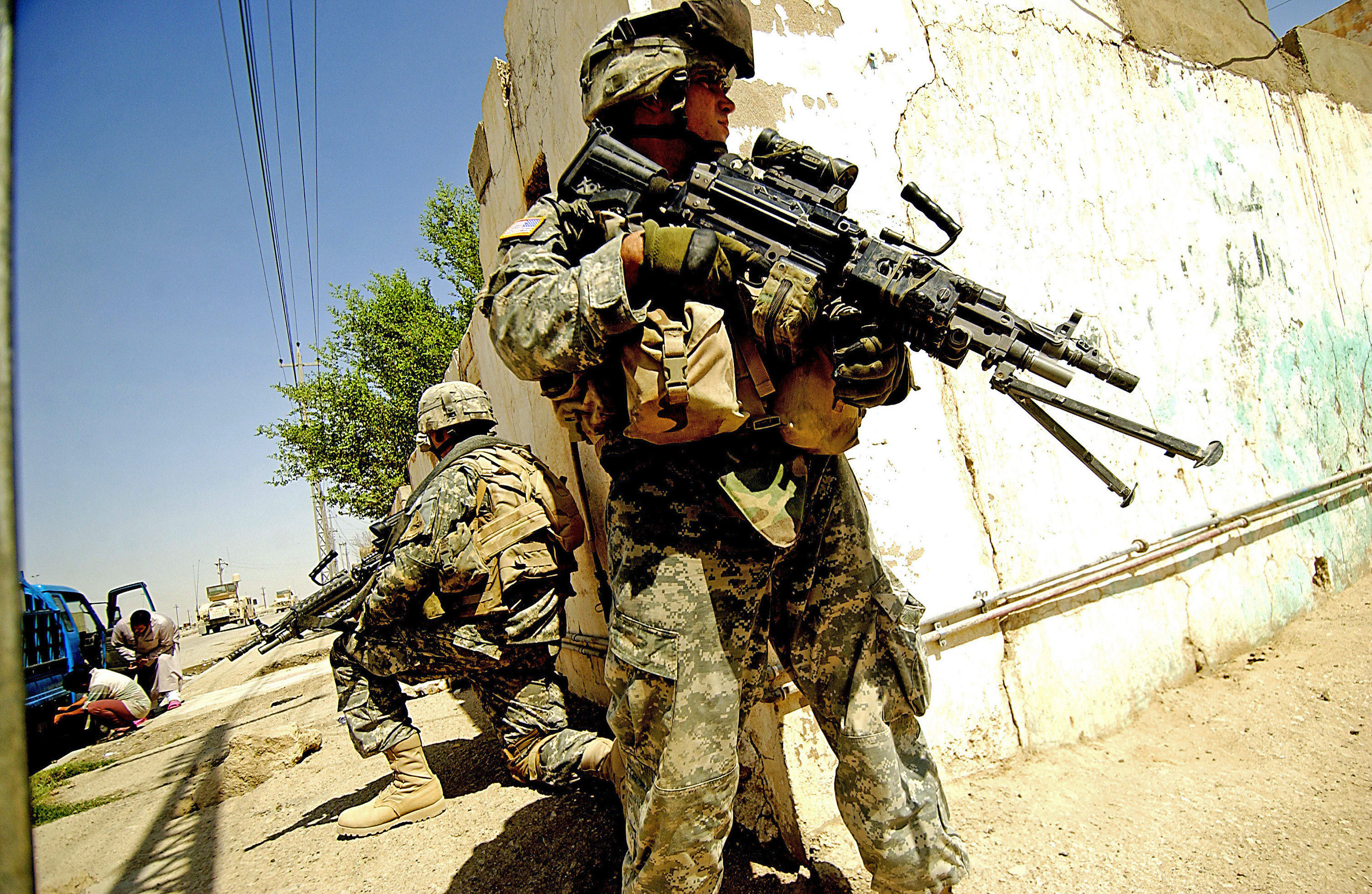 U.S. Army Pfc. Jacob Paxson and Pfc. Antonio Espiricueta, both from Company B ("Death Dealers"), 2nd Battalion, 6th Infantry Regiment, attached to Task Force 1st Battalion, 35th Armored Regiment, 2nd Brigade Combat Team, 1st Armored Division, provide security from a street corner during a foot patrol in Tameem, Ramadi, Iraq